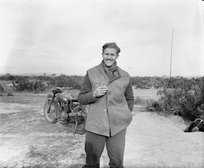 Royal Air Force Operations in the Middle East and North Africa, 1939-1943. Squadron Leader J J le Roux, who commanded No. 111 Squadron RAF from January to April 1943, standing in front of his motorcycle at Souk el Khemis ('Waterloo'), Tunisia.